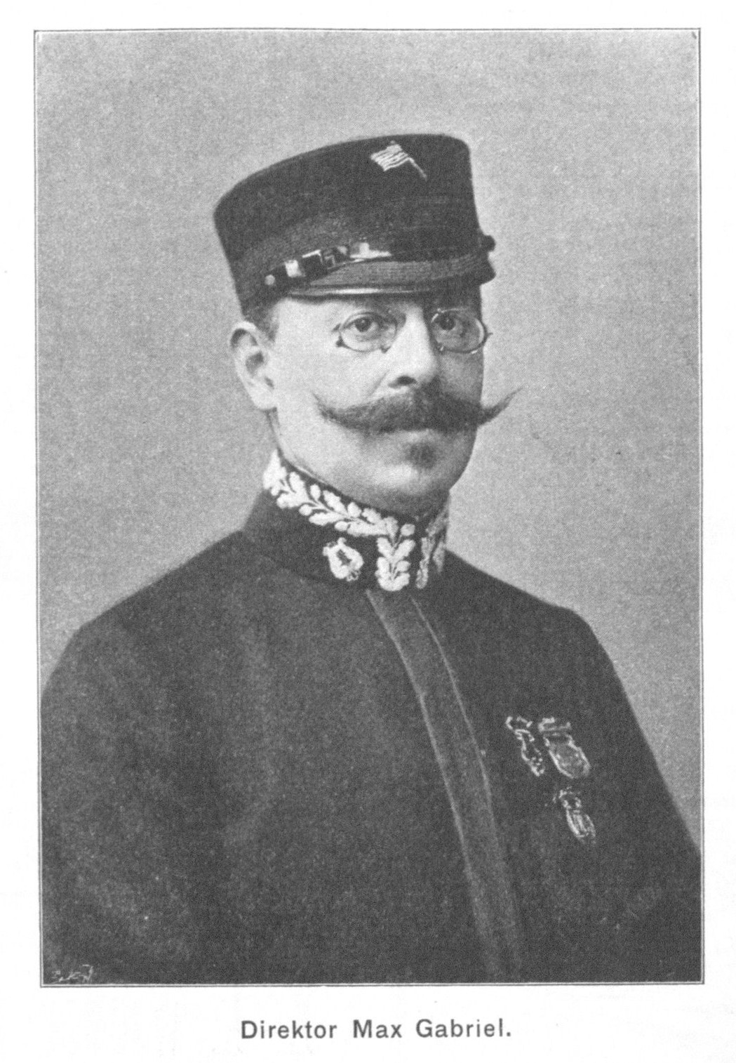 Portrait of Max Gabriel (1861-1942), German composer, conductor and director of theaters.